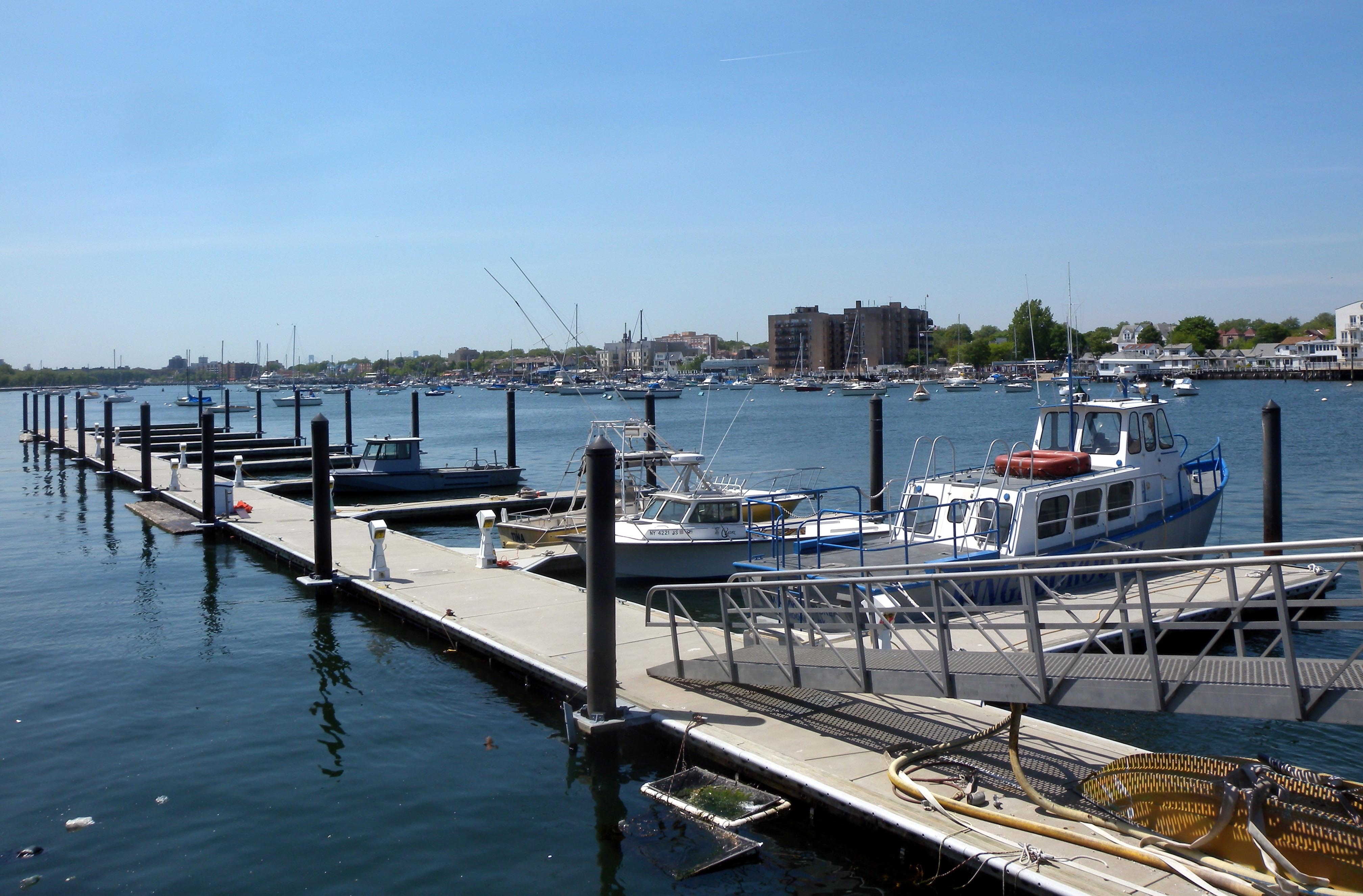 Looking west at boats of Kingsborough Community College in Sheepshead Bay, Brooklyn on a sunny midday.